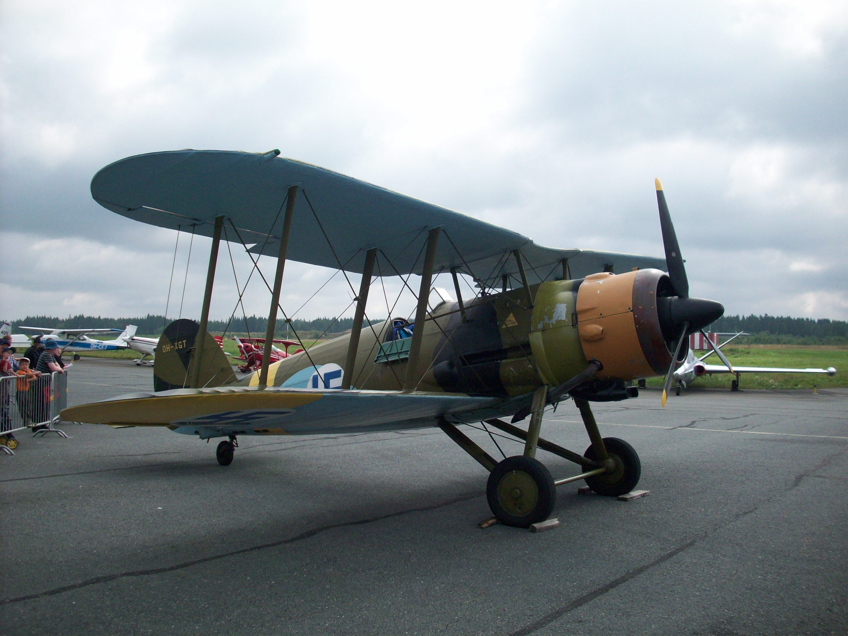 Gloster Gauntlet II GT-400 in Tampere Airshow